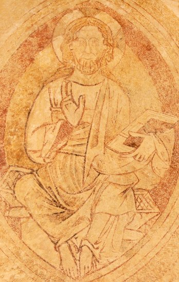 views of Alsenborn in the Rhineland-Palatinate, Germany